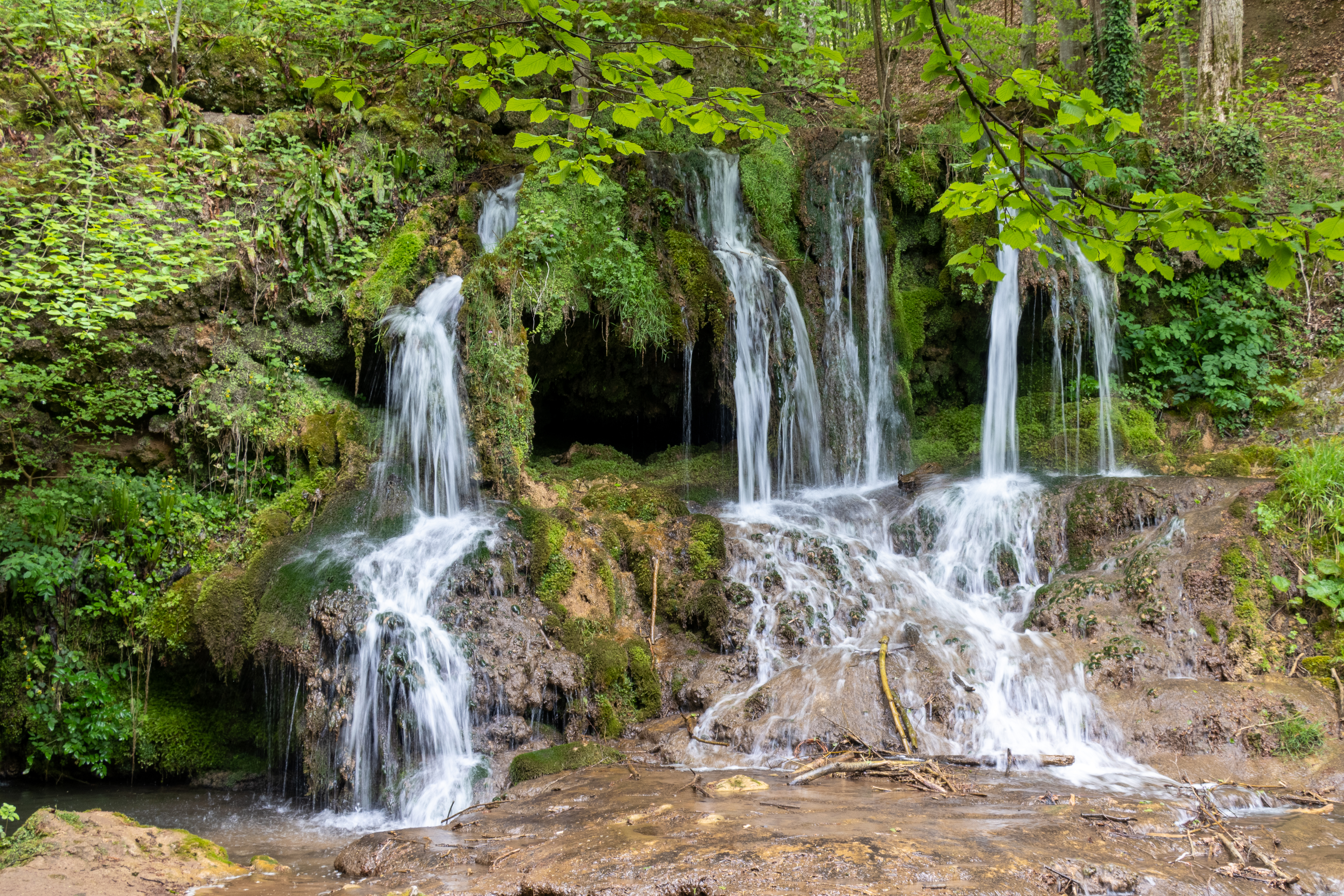 Dokuzak waterfall near Stoilovo in Strandzha Nature Park